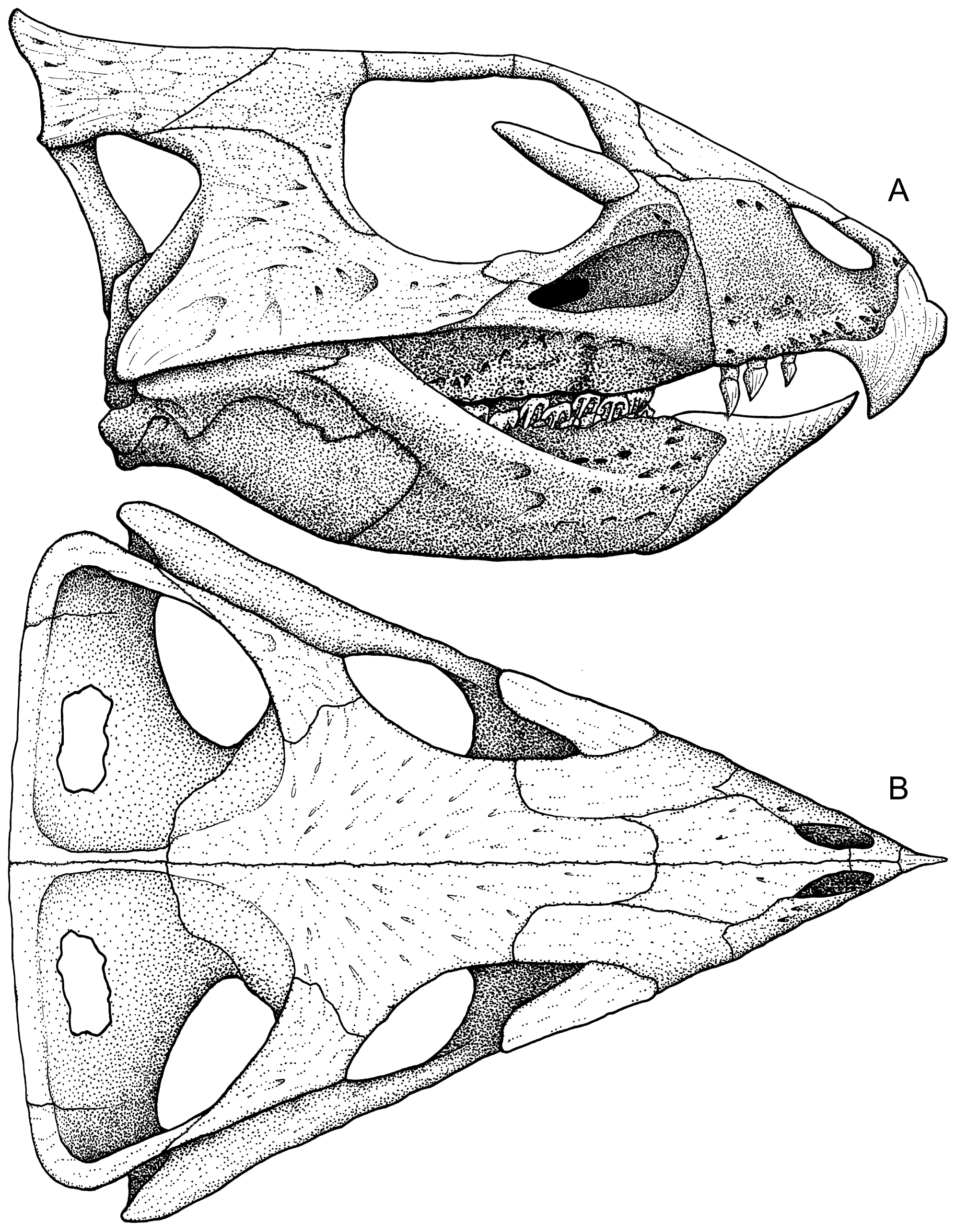 Cranial reconstruction of Aquilops americanus. Cranium in A) right lateral and B) dorsal views. The rendering is based on OMNH 34557 (holotype), with missing details patterned after Liaoceratops yanzigouensis and Archaeoceratops oshimai.